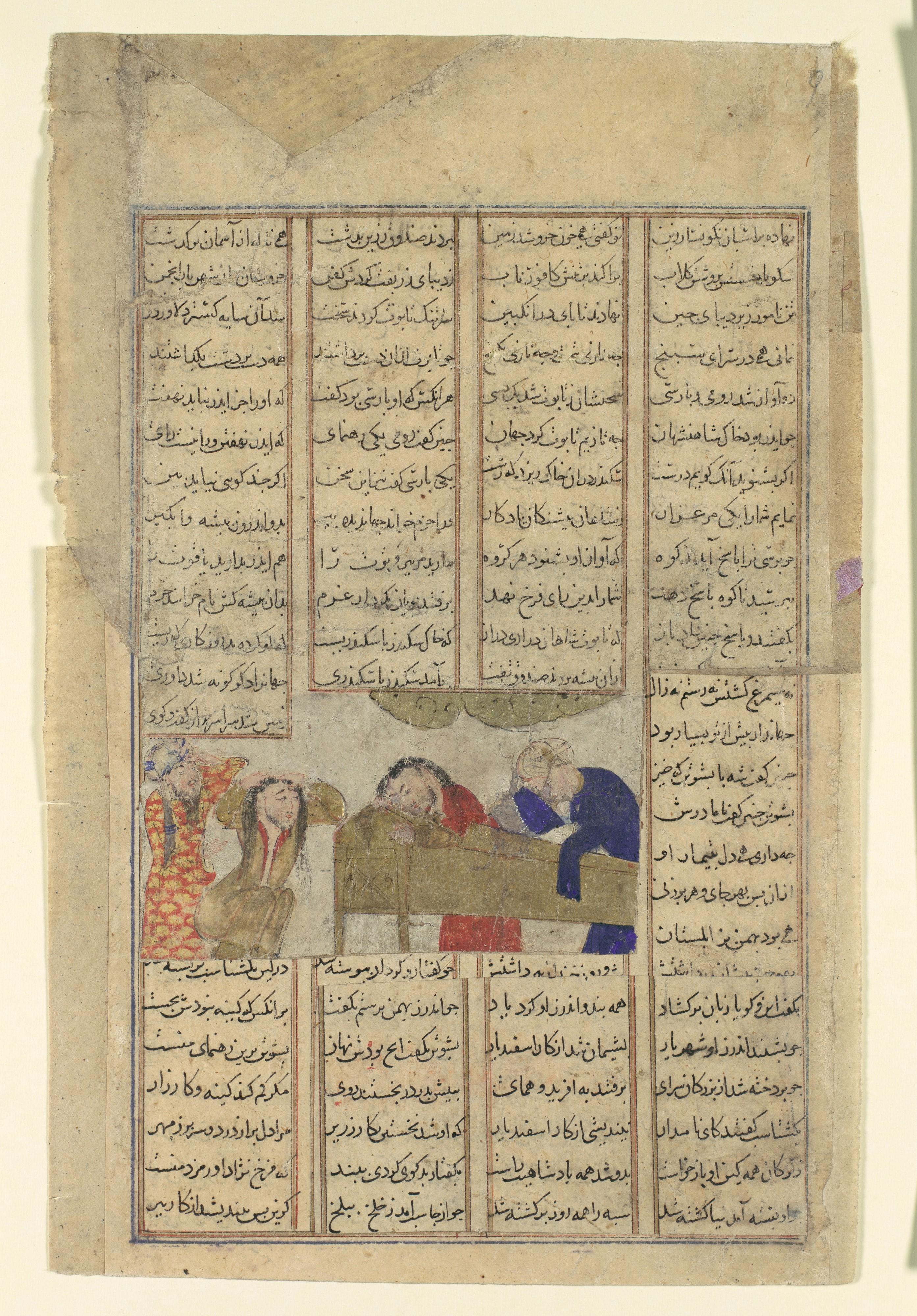 Folio from an illustrated manuscript; Codices